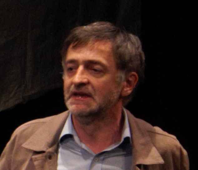 Serbian Actor Zoran Cvijanović and actress Nataša Ninković in theatrical performance,Prah, at Isabel Bader Theatre, Toronto, Canada